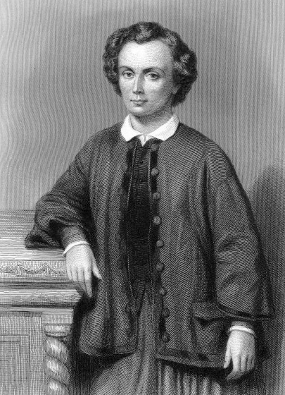 Portrait of French painter Rosa Bonheur (1822-1899) by Charles-Michel Geoffroy (1819-1882)